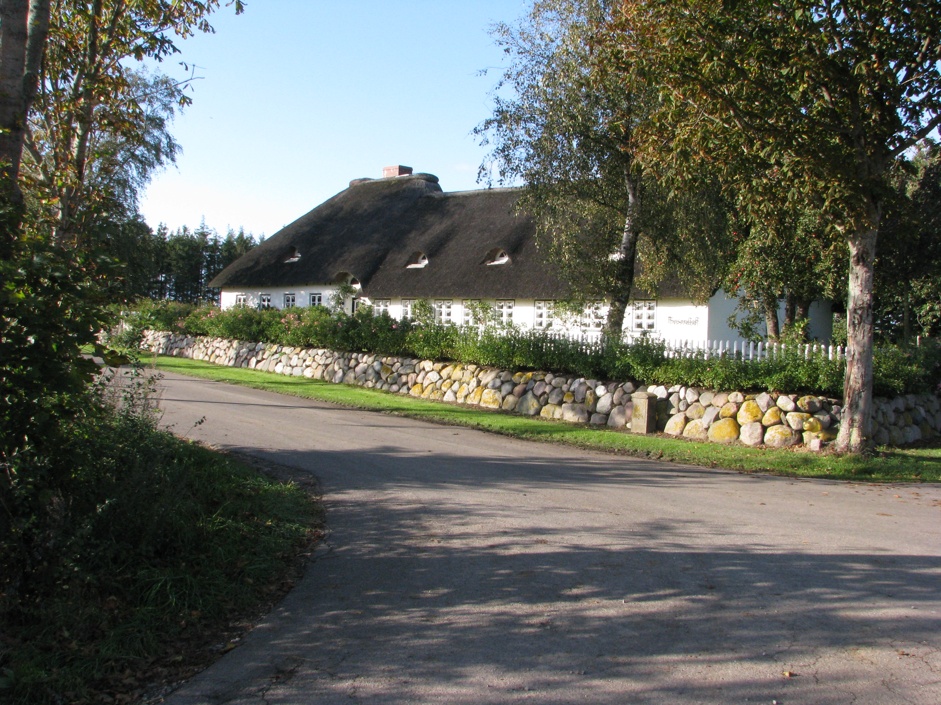 An old farm house, called Fresenhof, in the municipality of Bohmstedt, Germany